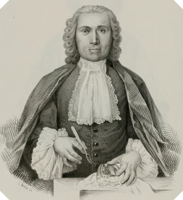 Giovanni Manzolini (1700-1755), italian sculptor and anatomist, from a drawing of Cesare Bettini.